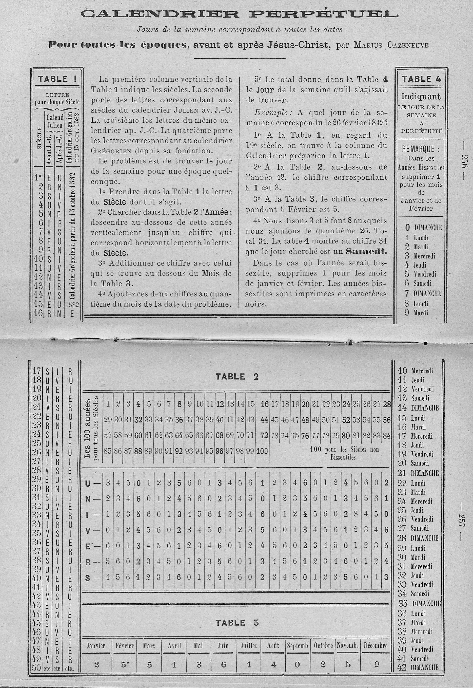 Perpetual calendar (in French), days of the week corresponding to all dates for all periods, before and after Jesus Christ, by Marius Cazeneuve.